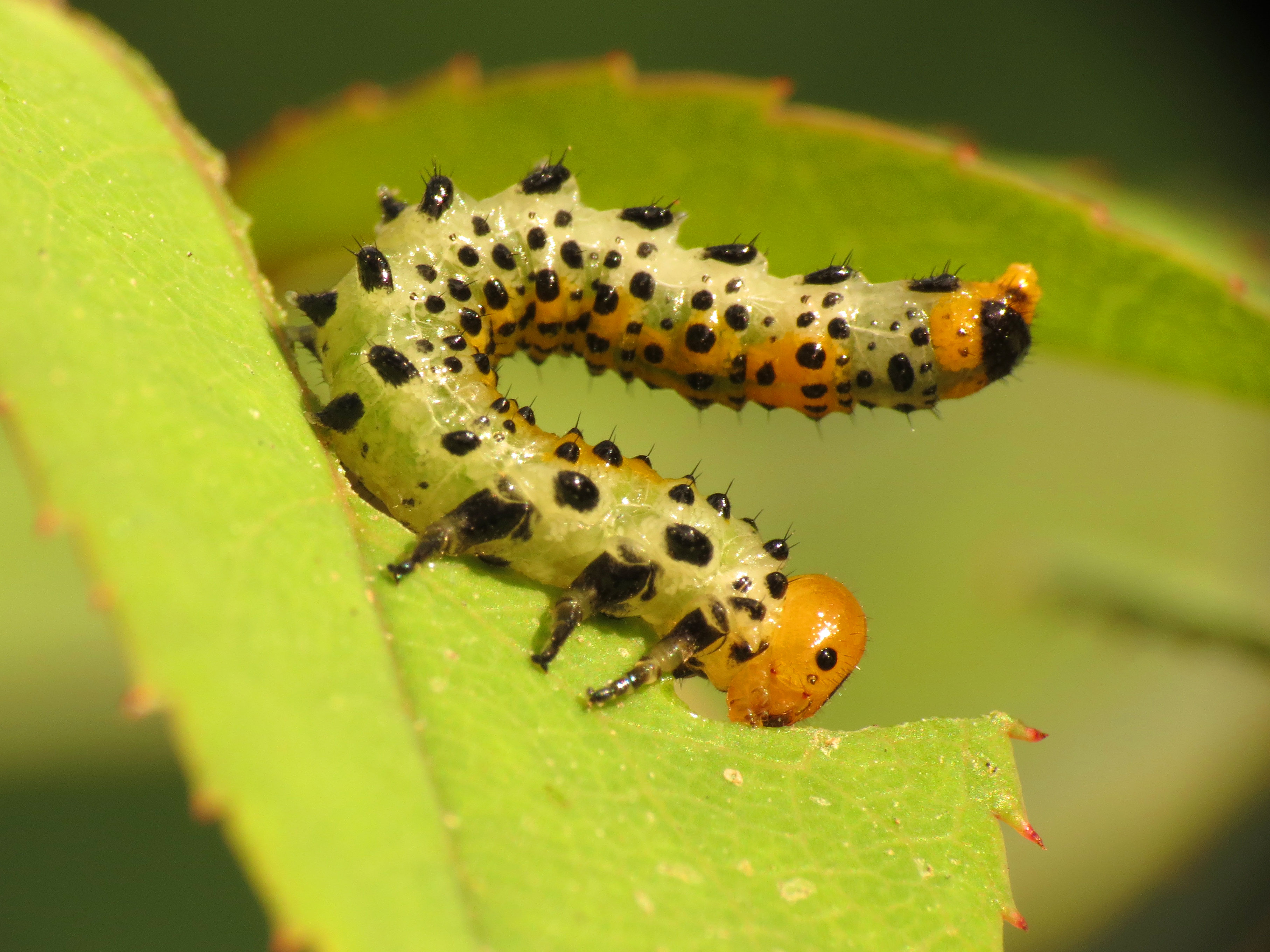 Arge ochropus decimating a cultivated rose bush. Els Poblets, Alicante, Spain.